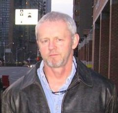 American actor David Morse